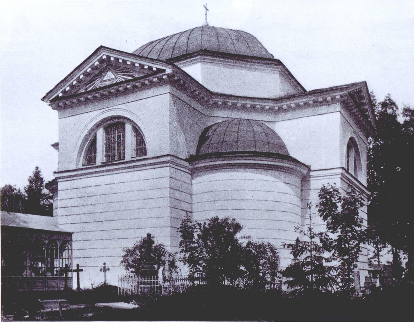 Tsarskoye Selo (Russia), Kazan cemetery.